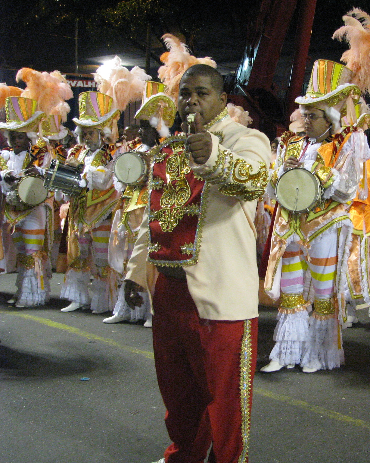 Grand-Rio-60.JPG